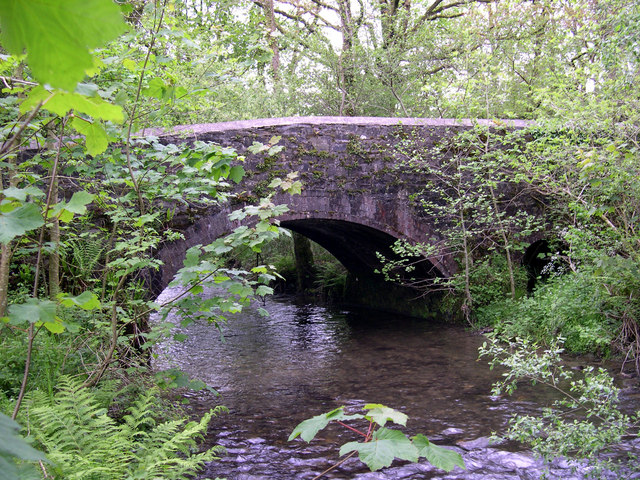 Bridge Over Afon Cywyn Bridge below Pencaerau Mill